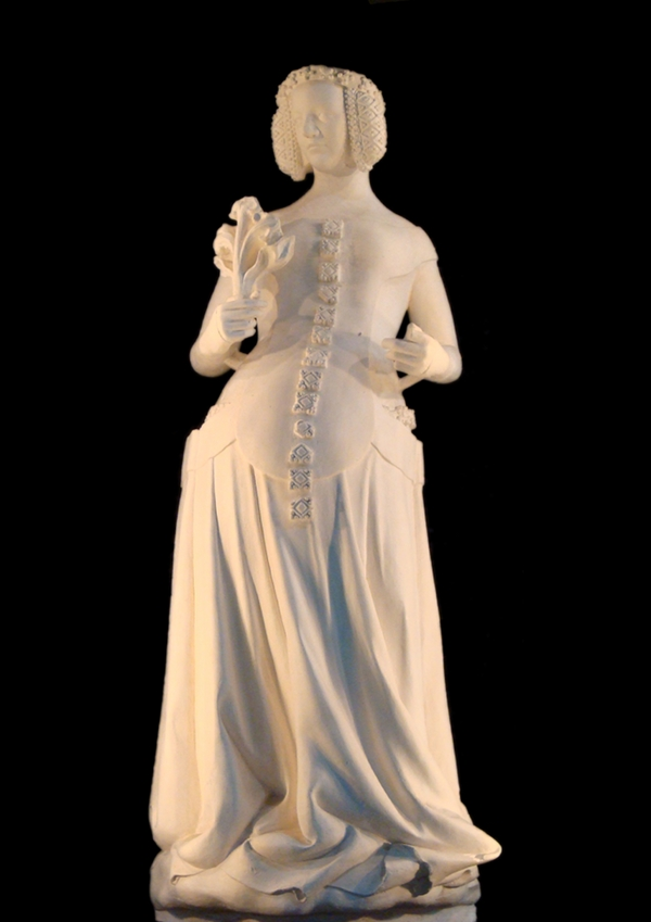 Statue of Isabeau of Bavaria, Queen consort of Charles VI of France. Palais de justice de Poitiers.